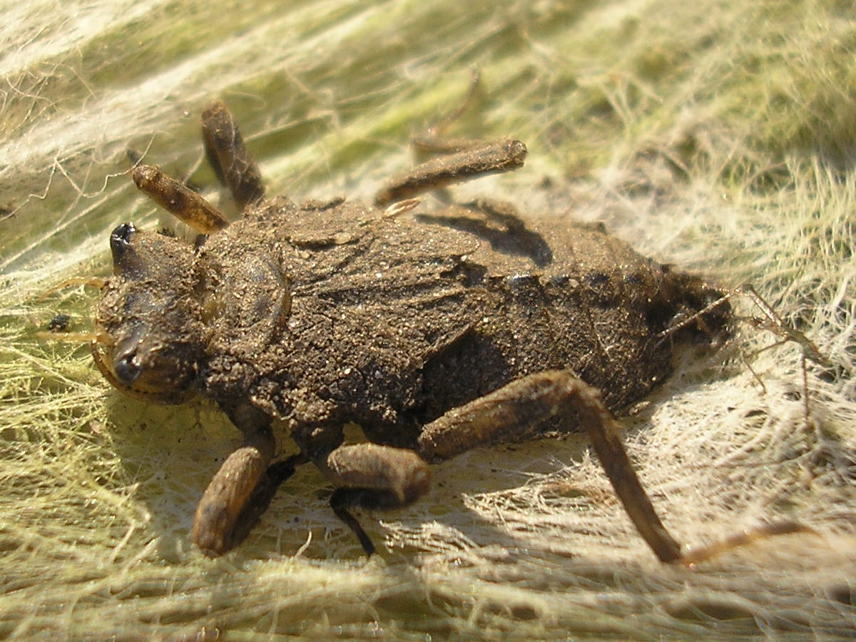 Larva of the Dragonfly Libellula depressa ("Broad-bodied Chaser"), dying or deadLocation: Hengelo, Overijssel, Netherlands.Note: This larva was previously identified here as a Scarce Chaser (Libellula fulva), but later discussions on waarneming.nl (sorry linking won't work?!), would have it to rather be a Broad-bodied Chaser (Libellula depressa), which makes much more sense, considering the Scarce Chaser is rare (non-existent?) in the area.